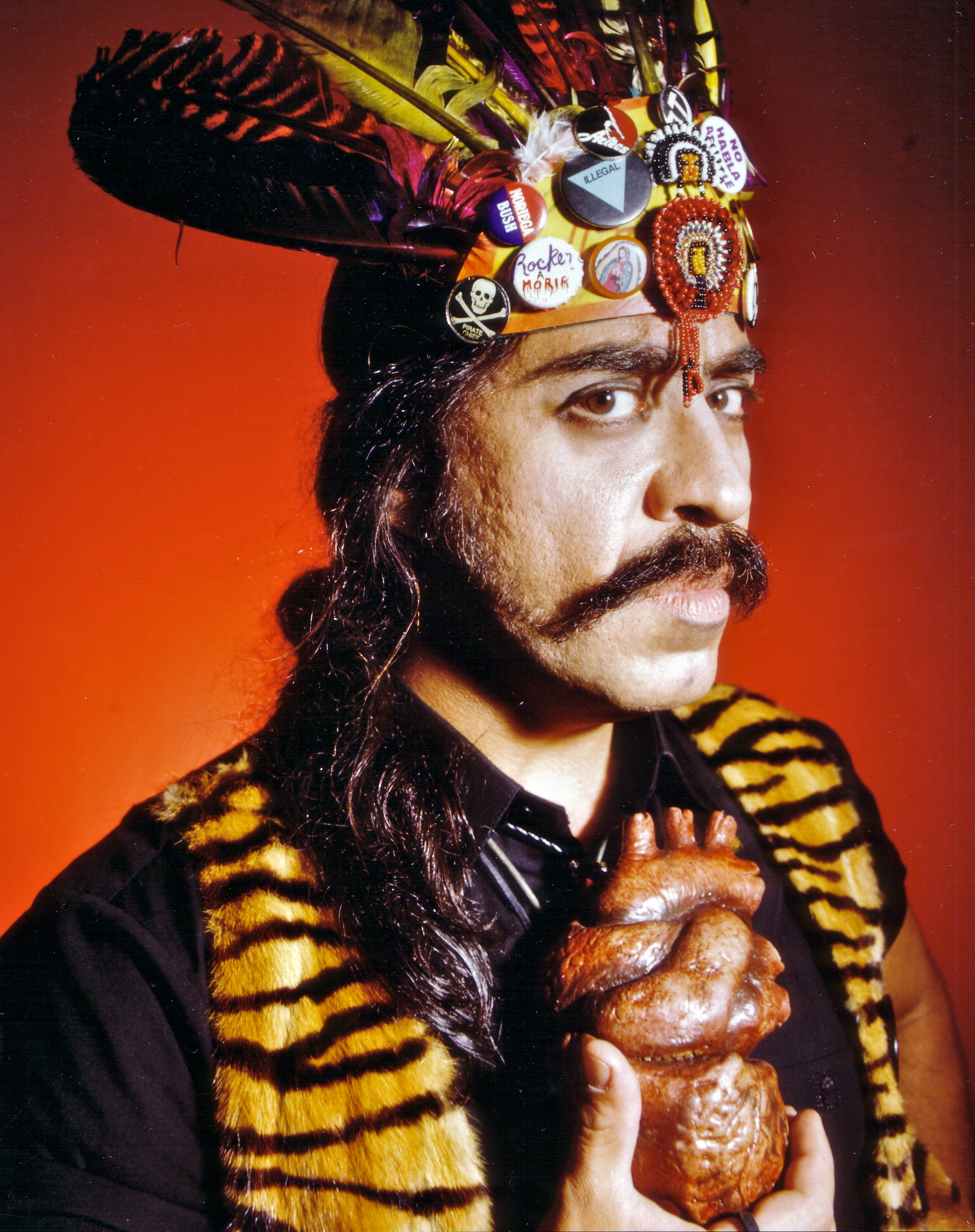 Naftazteca is Guillermo Gomez Pena. Here he is posing with the heart of the land and paying honor to the ancestor of his lineage. Bright colors and a solid red background to accompany him.